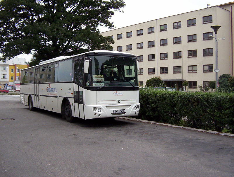 Picture of the bus Karosa Axer.